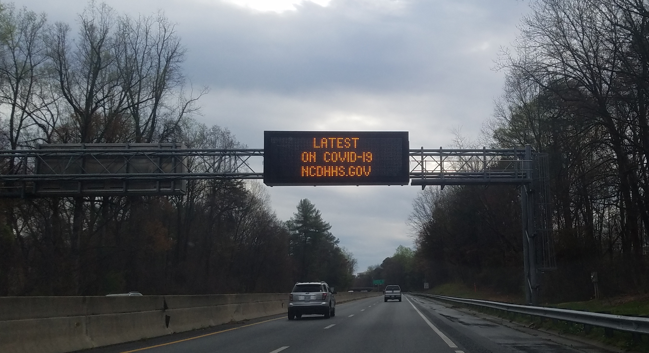 A sign on Salem Parkway in advising drivers on the website for info about 2020 coronavirus pandemic in North Carolina.